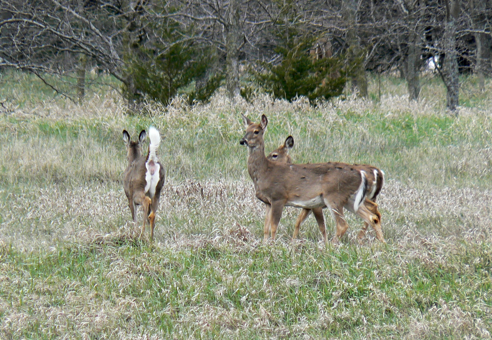 White-tailed deer at Chalco Hills Recreation Area